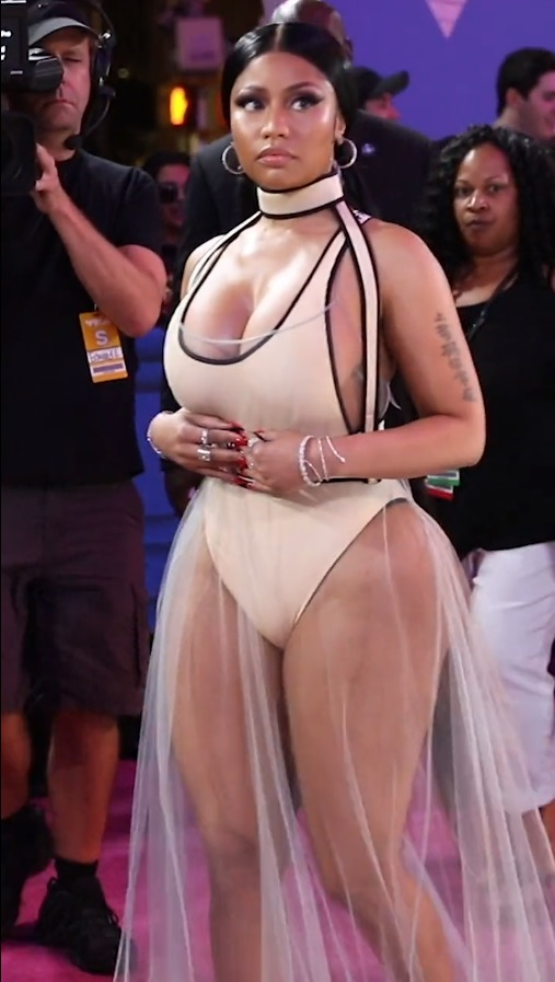 Nicki Minaj at 2018 VMA Red Carpet